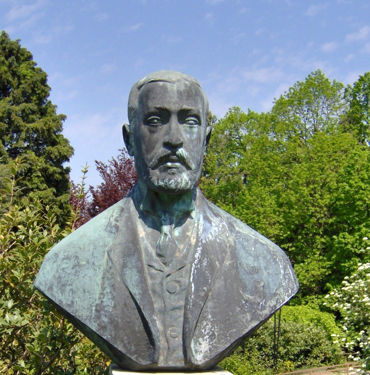 Arborétum Mlyňany - memorial to the founder Ambrózy-Migazzi (1869-1933)